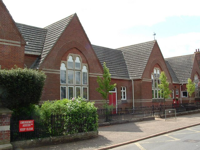 Browick Road School, Wymondham, Norfolk, England. This was the original Victorian school for Wymondham. It is currently an infant school.